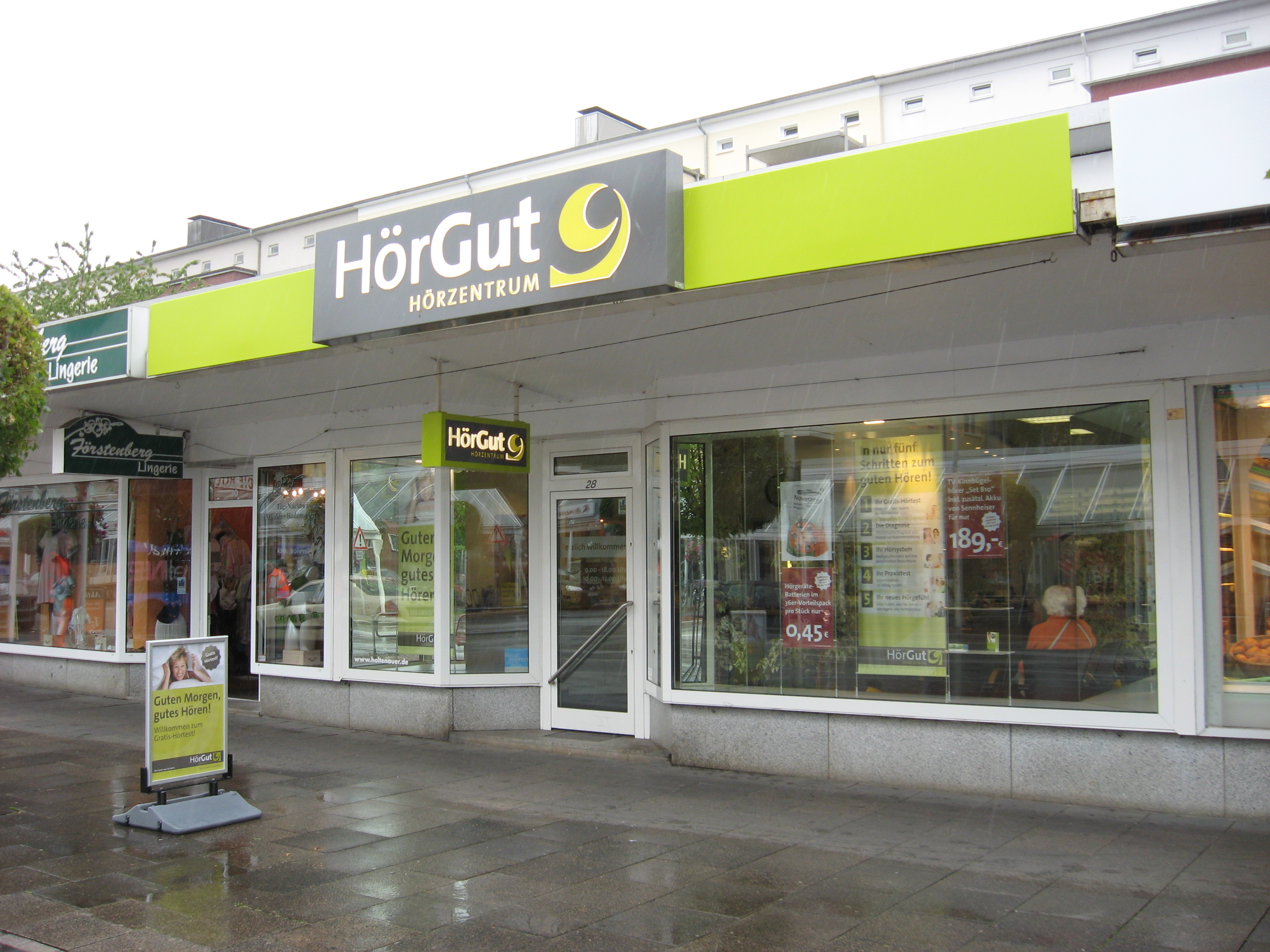 HörGut chain store in Kiel